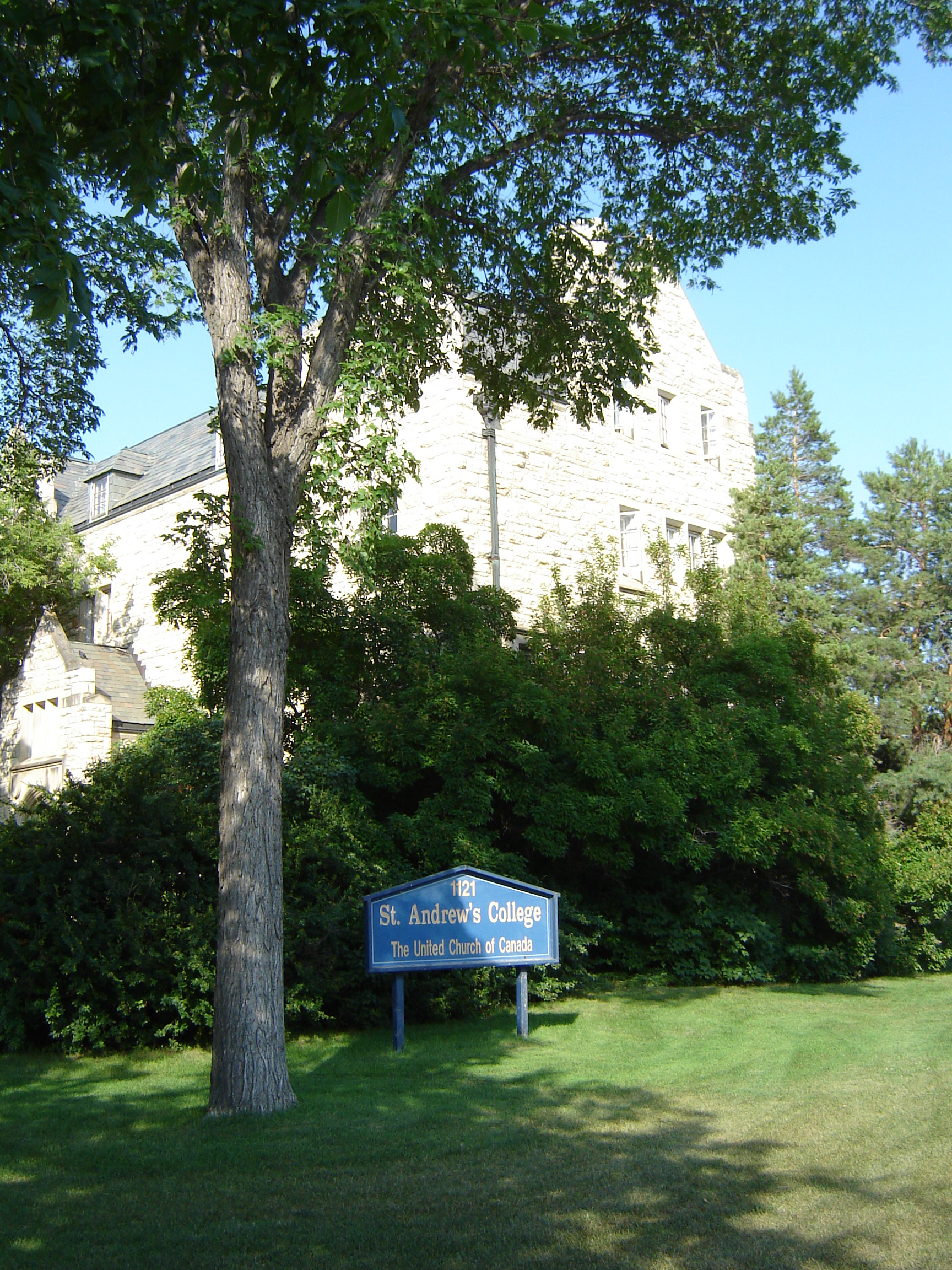 St. Andrews College Associated College in U of S Saskatoon Saskatchewan Canada